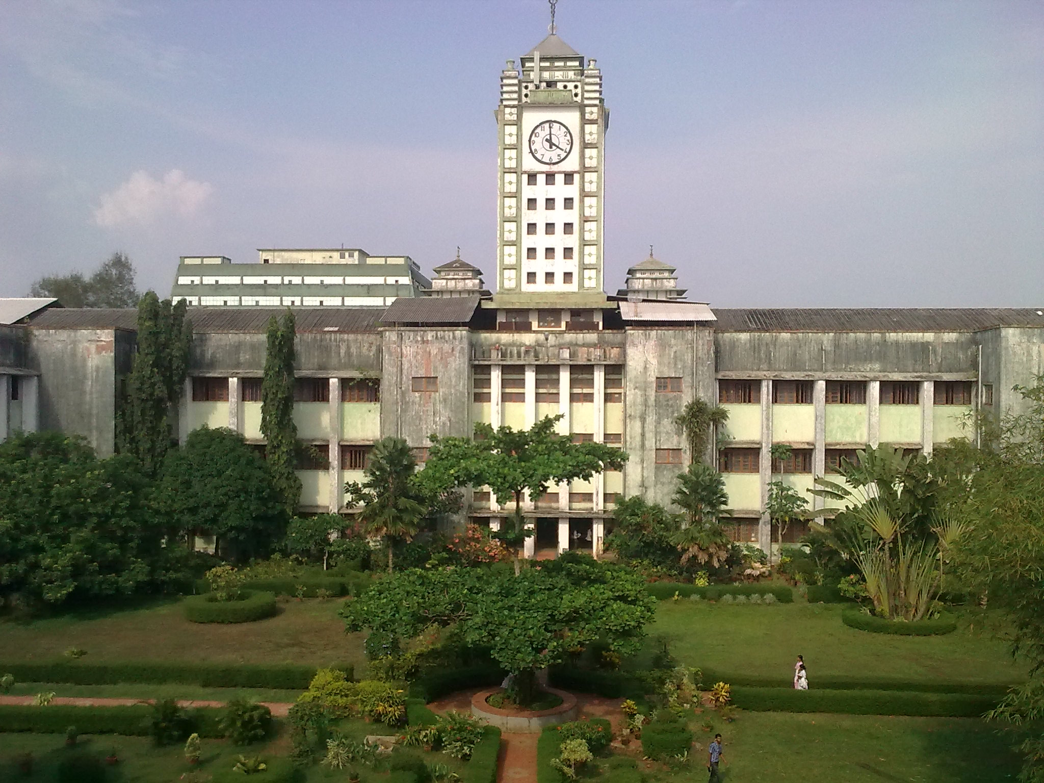 Calicut Medical College - a view from the garden. The clock tower could be seen in the photo.